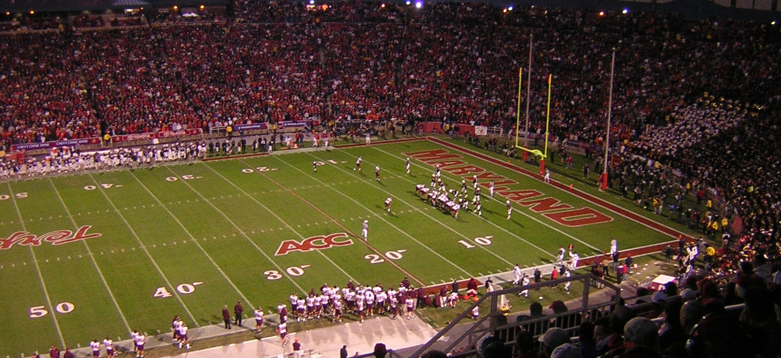 The 2005 Virginia Tech Hokies football team travels to Byrd Stadium (en) to take on the University of Maryland Terrapins